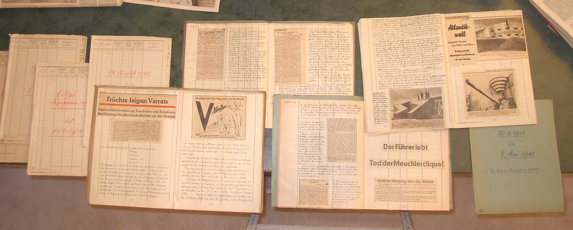 Photograph of the notebooks of the Friedrich Kellner diary